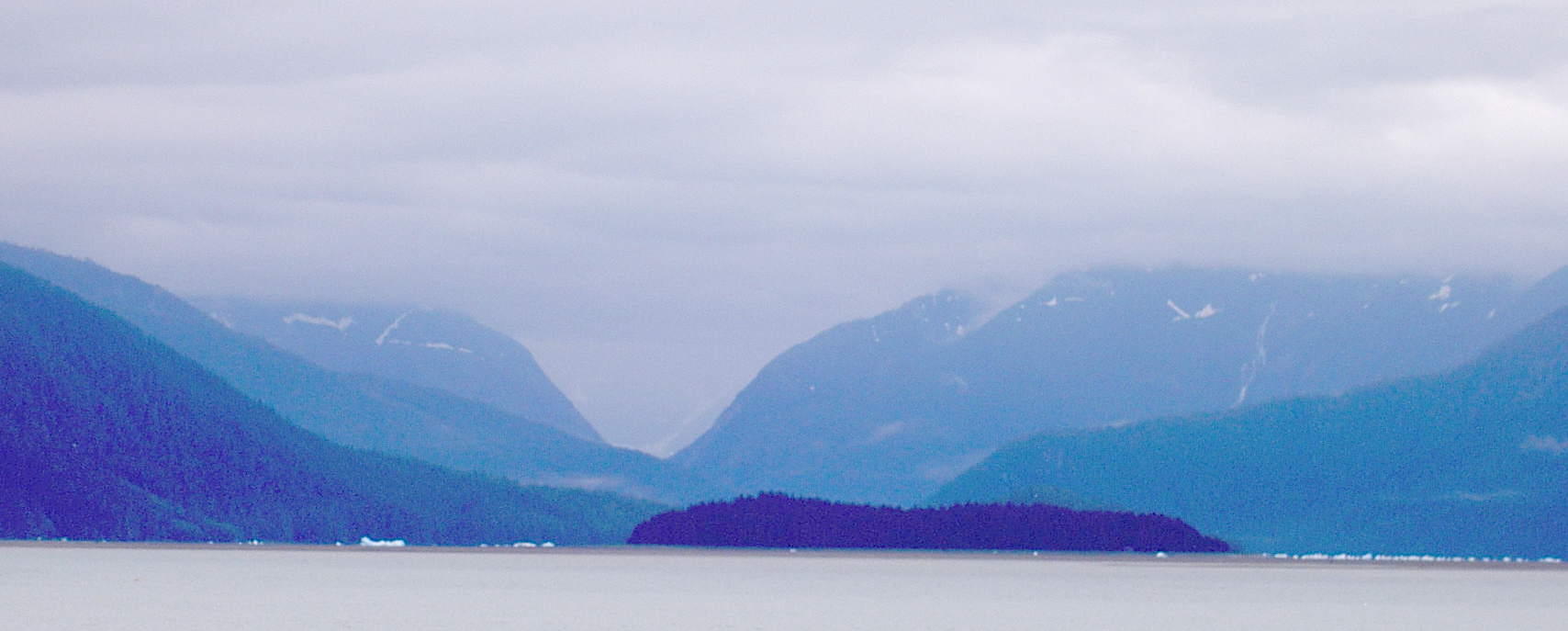 the entrance to LeConte Bay in southeastern Alaska, looking northeast, with icebergs